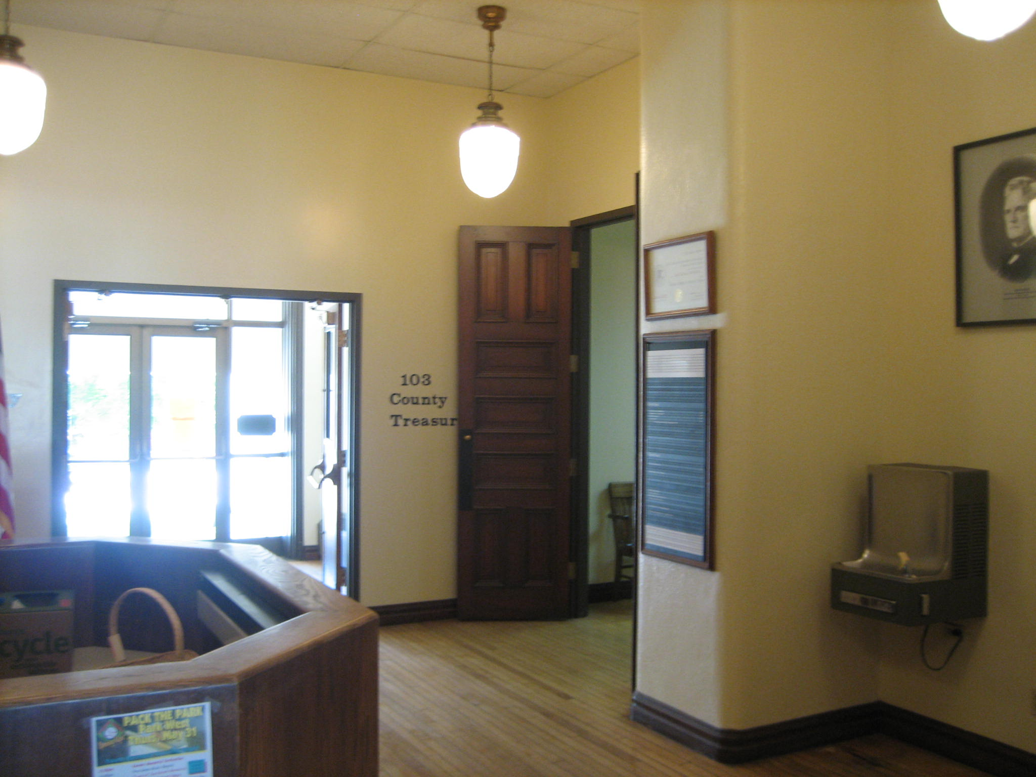 Old Ogle County Courthouse Oregon, Illinois, courthouse square. It is a contributing property to the Oregon Commercial Historic District, as well as having its own listing on the National Register of Historic Places.